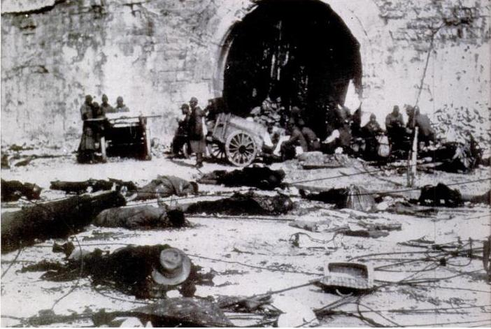 Soldiers and civilians were tied in groups of fifty and executed by the Japanese Army, angered by house-to-house fighting inside Nanking. The bodies above have been dead some time. Notice telephone pole and wires lying across the men in foreground. Japanese soldiers in background are using the carts for systematic looting of shops, chiefly for food. Unusual in a well-disciplined army like Japan’s, the organized looting of Nanking would indicate that the Japanese Army commissariat needs food more than prestige.